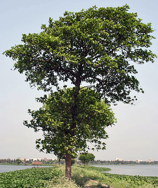 Kadamb Neolamarckia cadamba in Kolkata, West Bengal, India.